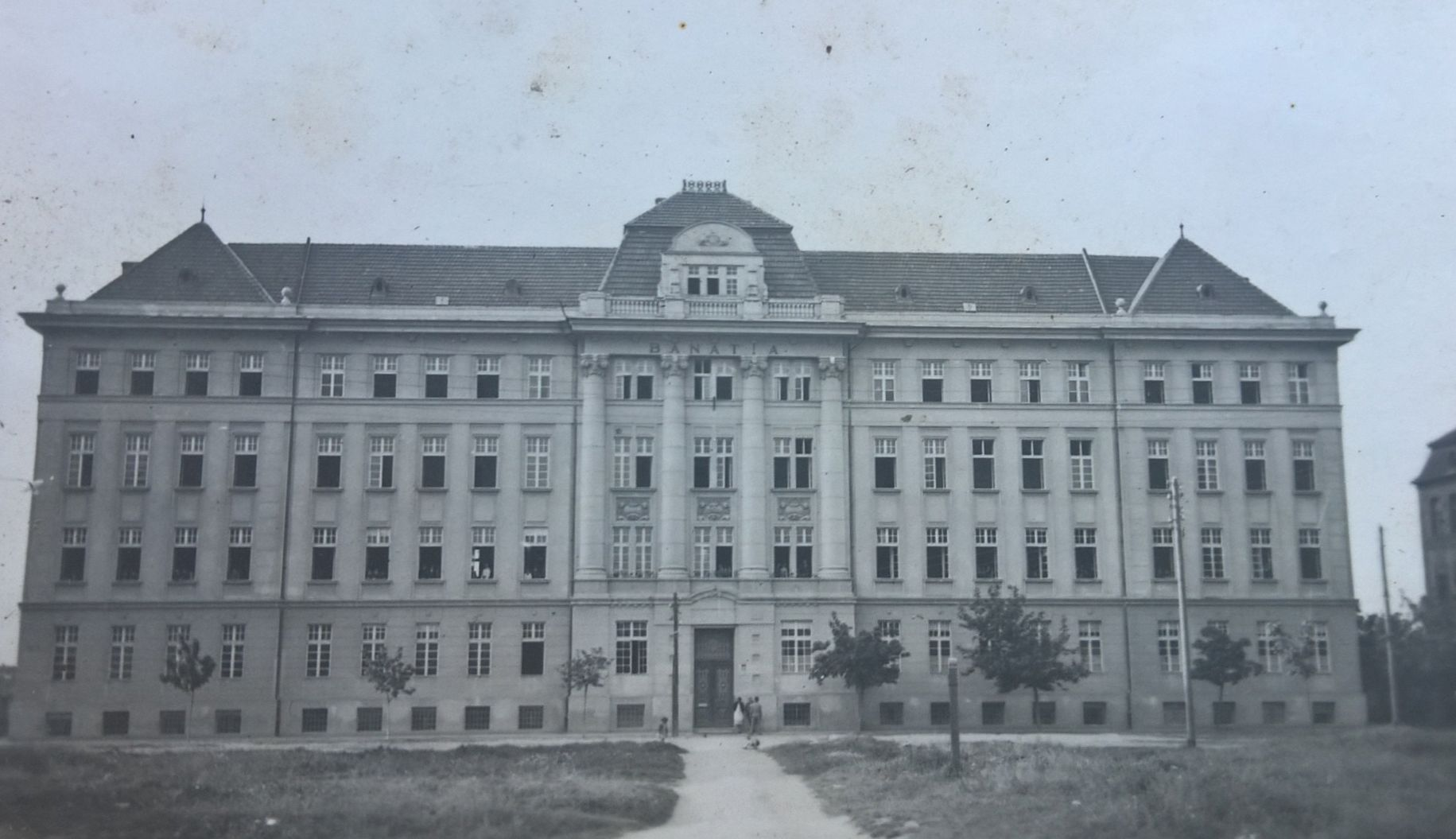 Banatia School Temeschwar 1939